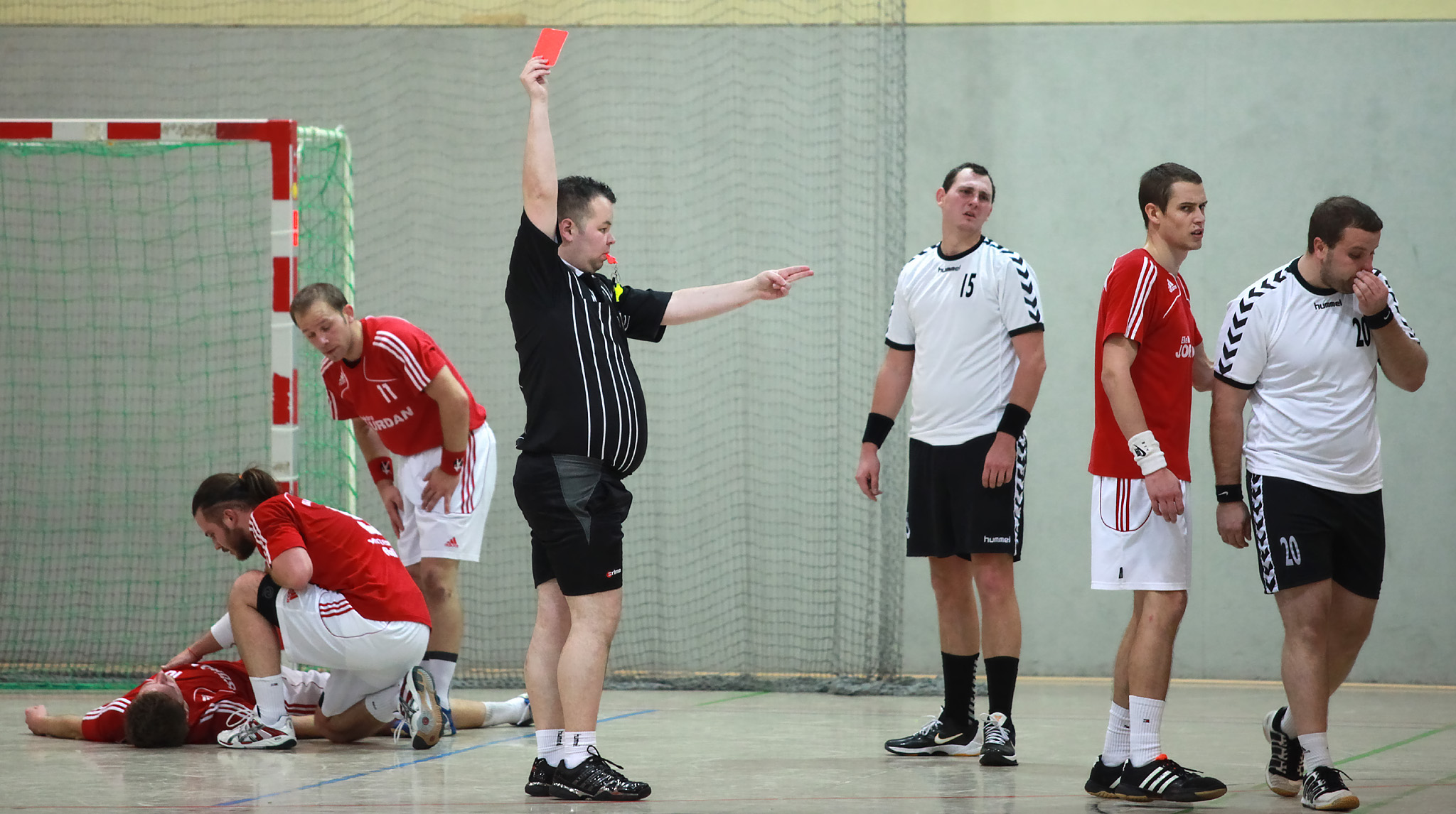 Red Card in a handball game.